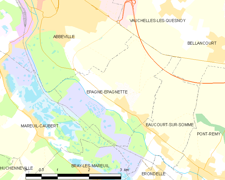 Map of French municipality Épagne-Épagnette